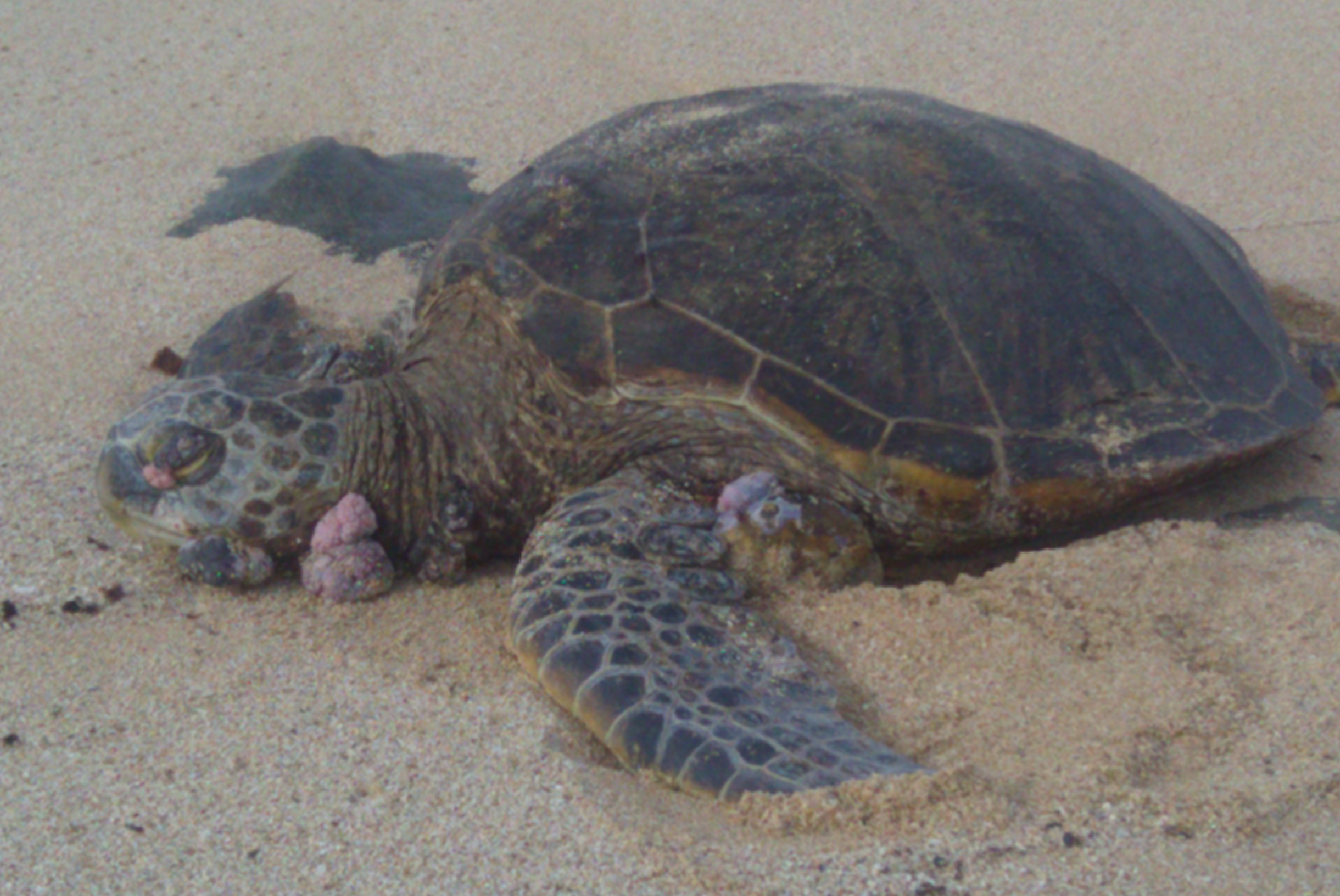 A photo of a green sea turtle with significant fibropapilloma tumors basking on a beach north of Hale'iwa, HI. Geotagging metadata is inexact; I have published a more accurate location in this infobox but left the metadata intact.